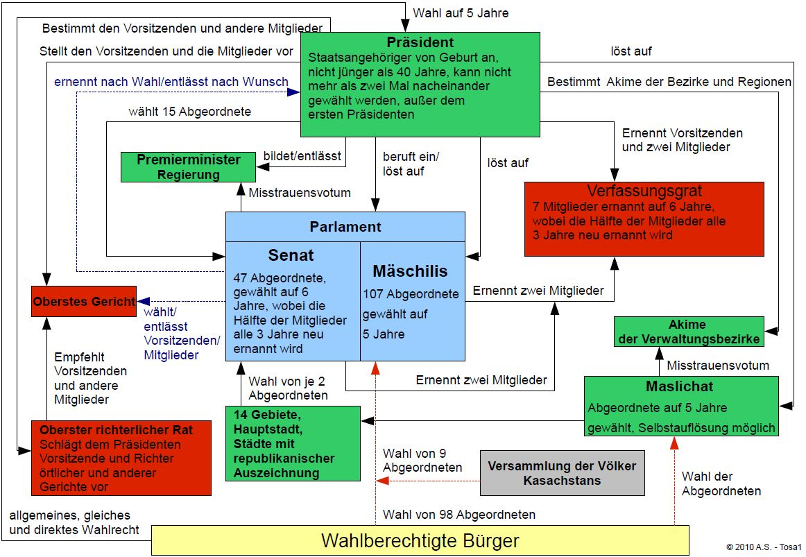 Constitution organs of the Republic of Kazakhstan represented in a scheme.